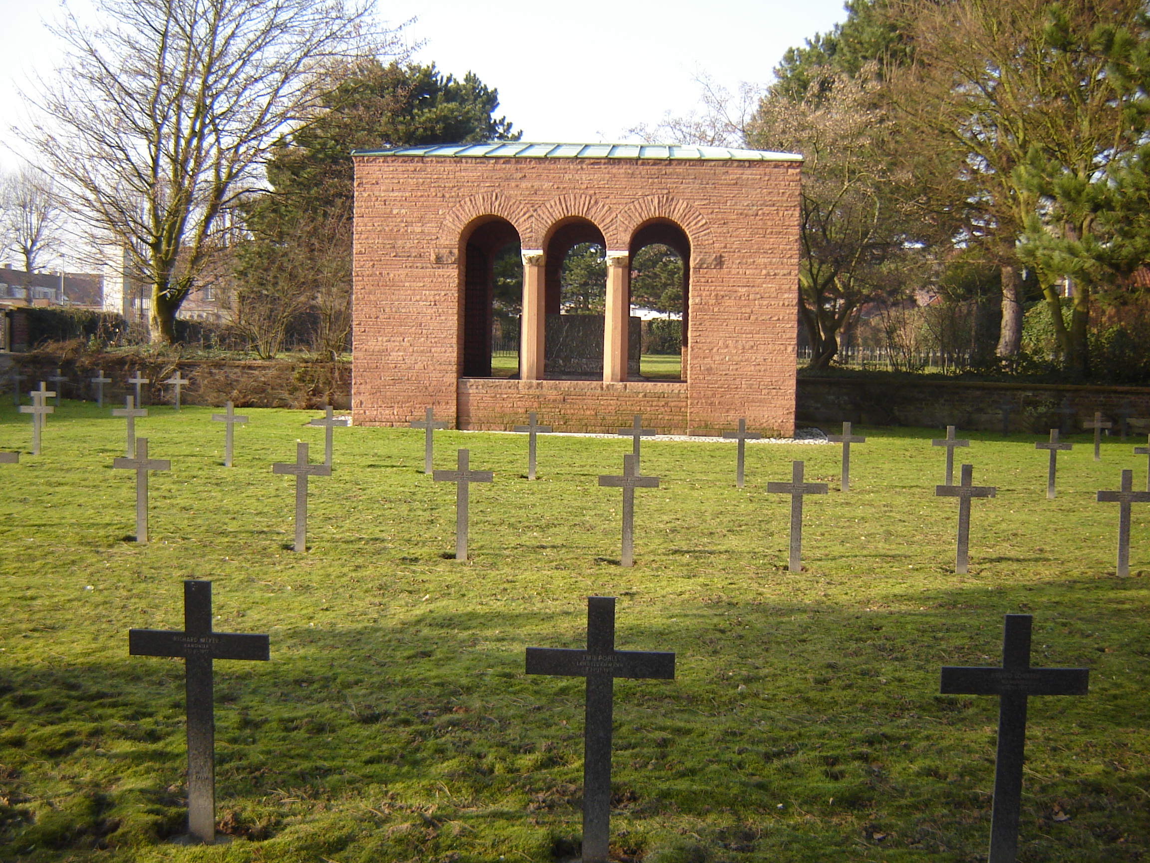 Deutscher Soldatenfriedhof Halluin in Halluin. Halluin, Nord, Nord-Pas-de-Calais, France